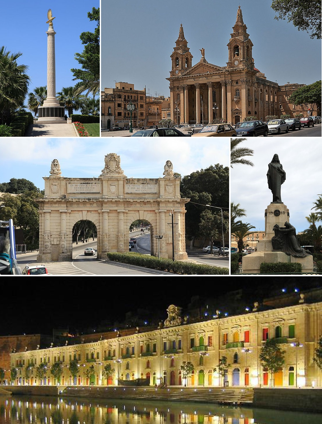 Montage of various landmarks in Floriana, Malta.